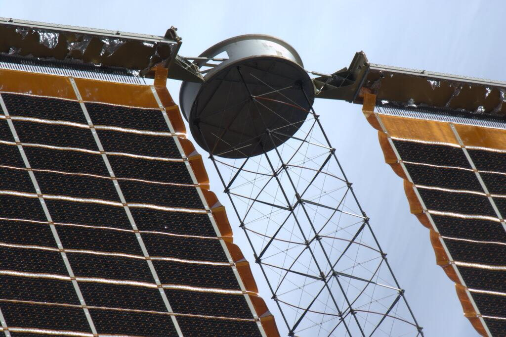 Chris Hadfield: "Bullet hole — a small stone from the universe went through our solar array," Hadfield wrote, suspecting the hole was caused by a tiny space rock called a micrometeoroid. "Glad it missed the hull." William Jeffs, NASA spokesperson: "The 'bullet' that created the hole in the solar array was probably due to a 1 mm to 2 mm diameter MMOD [micrometeoroids and orbital debris] impact, assuming the hole was on the order of 0.25 inches in diameter, a 2 mm size MMOD particle is expected to hit somewhere on [the International Space Station] every 6 months or so."